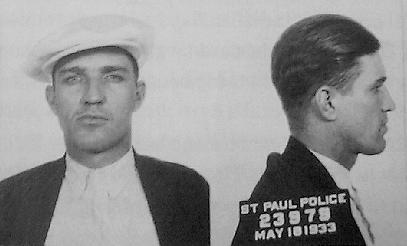 A Mugshot photo of notorious gangster Tommy Carroll